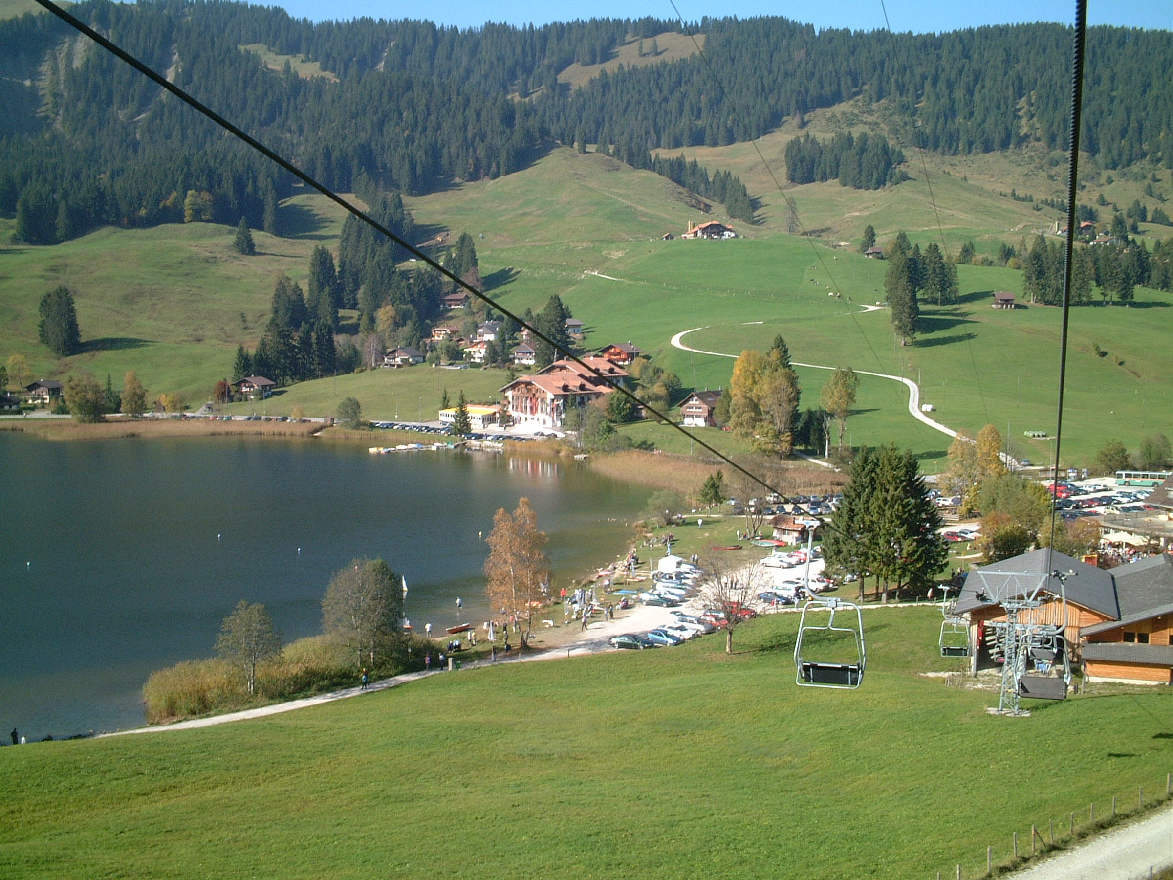 Black lake (English), Schwarzsee (German), Lac Noir (French). Located in the canton of Freiburg, Switzerland.